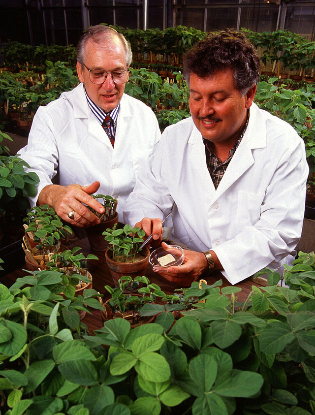 ARS plant pathologist Scott Abney (left) and research assistant Tom Richards check the growth of soybeans inoculated with field isolates of Phytophthora sojae. Disease reactions involving specific genes help identify the 45 races of P. sojae that have been reported in the United States.